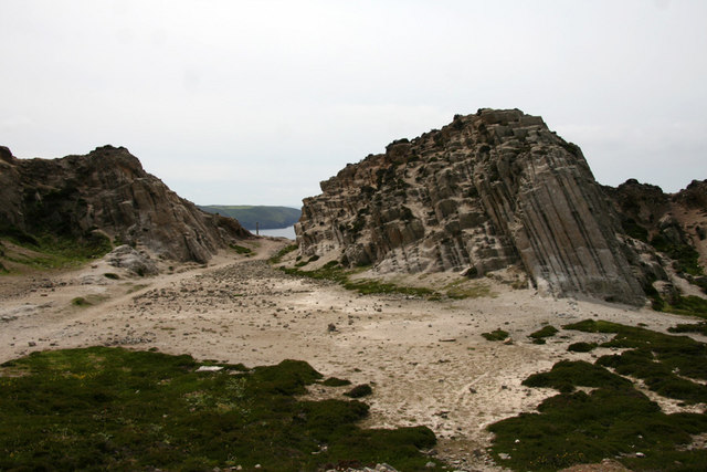 Cligga Head Outcrop of greisenised granite on Cligga Head.